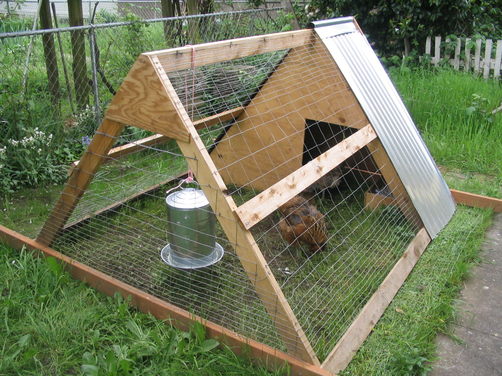 An A-frame chicken coop in a Portland, Oregon backyard. Dimensions are 4 feet tall, 8 feet long, and 6 feet across. The metal device in the front is their 3-gallon waterer.